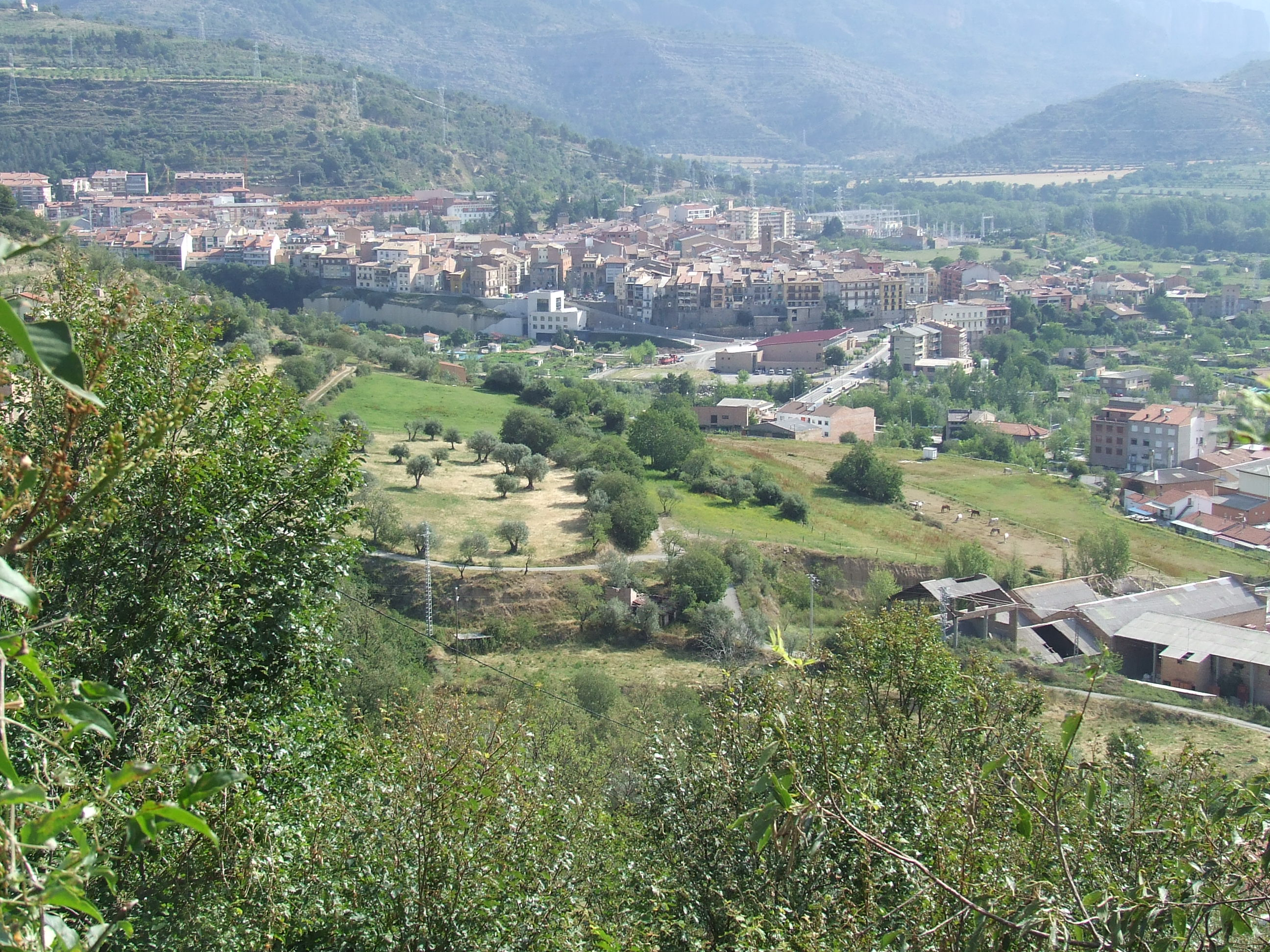 La Pobla de Segur des de Puimanyons (Pallars Jussà)